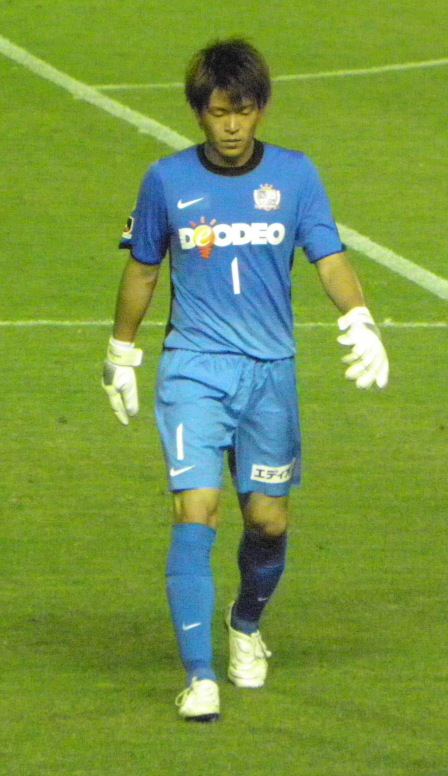 Nishikawa in the J.1 match vs Cerezo Osaka